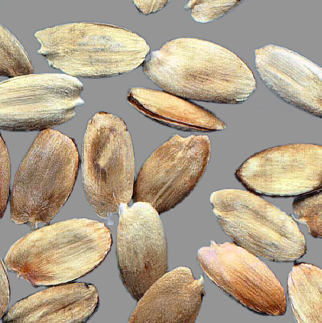 Maclura pomifera seeds